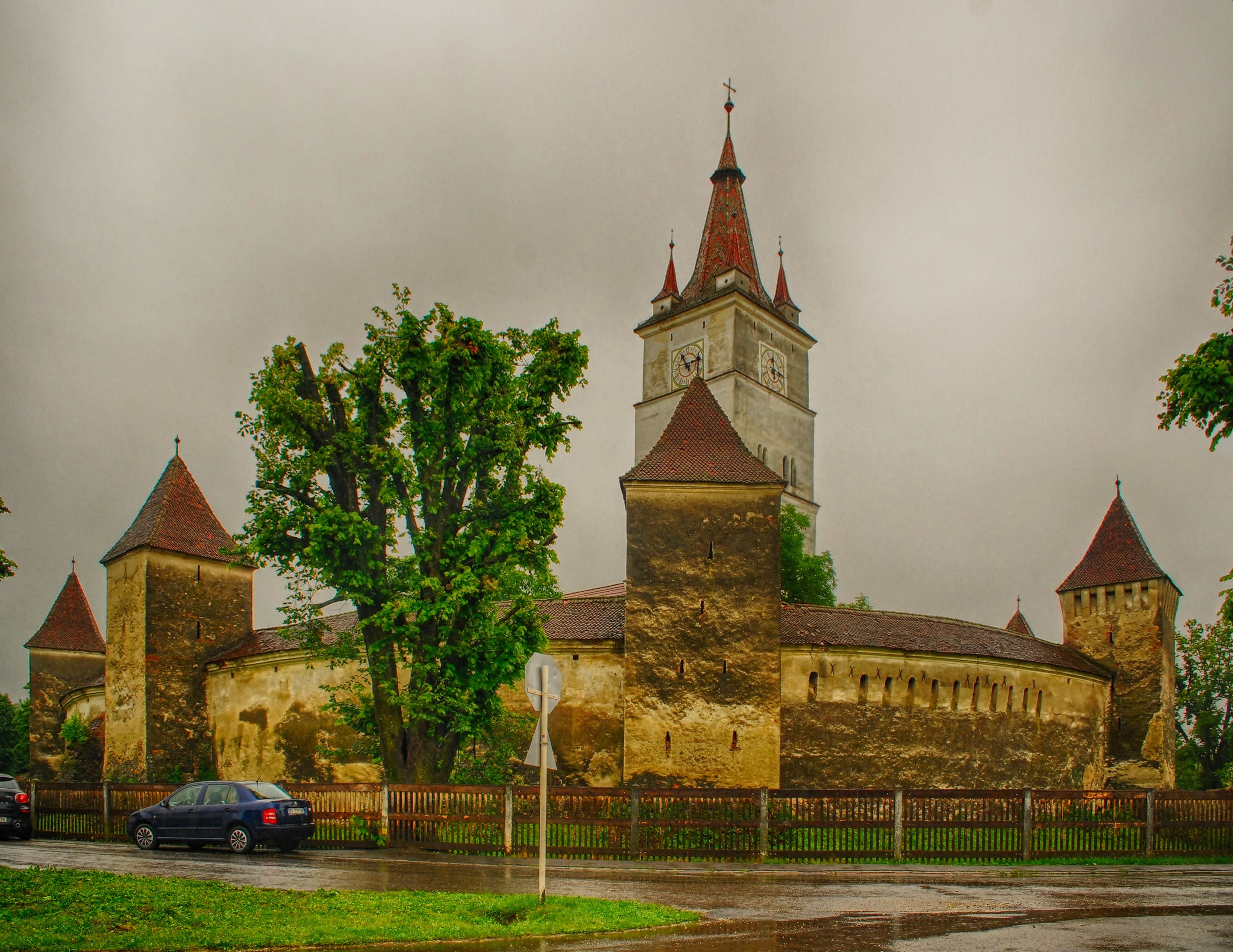 Fortified Saxon Lutheran church in Hărman, Brașov County, RomaniaRomână: Biserica luterană săsească fortificată din Hărman, județul Brașov, România